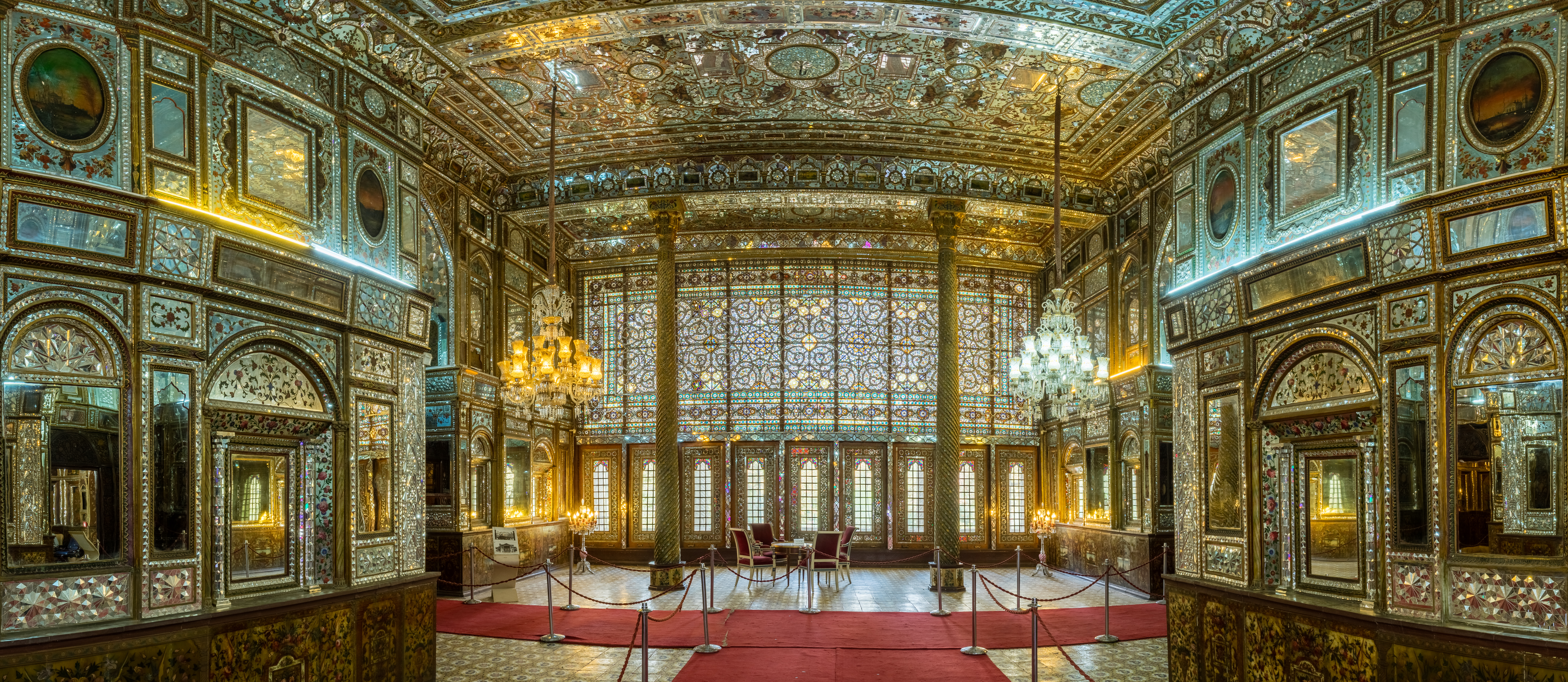 Golestan Palace is the former royal Qajar complex in Iran's capital city, Tehran. The UNESCO World Heritage Site belongs to a group of royal buildings that were once enclosed within the mud-thatched walls of Tehran's arg ("citadel") and is one of the oldest of the historic monuments in the city.